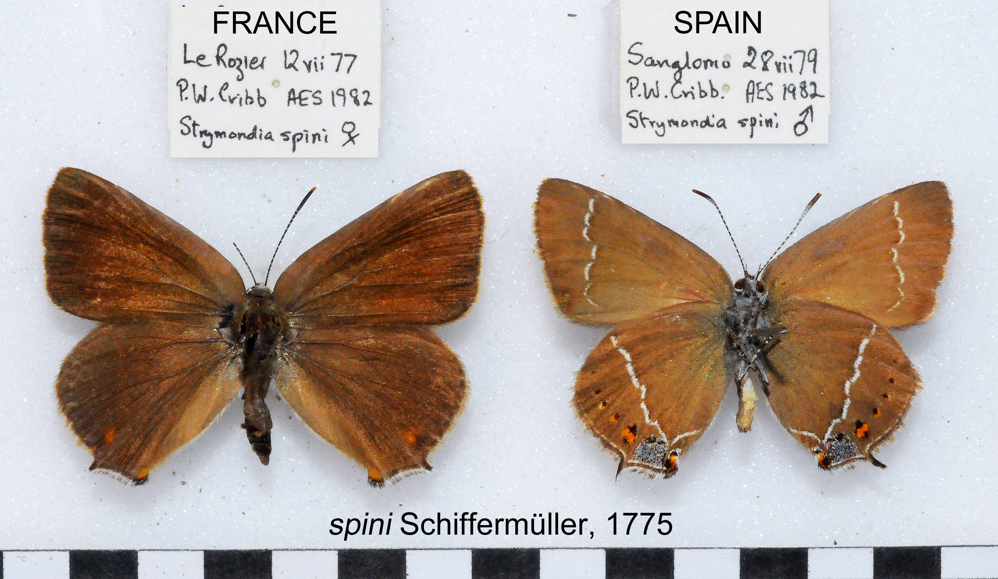 Satyrium spini, ♀,♂, Alan Cassidy photo.